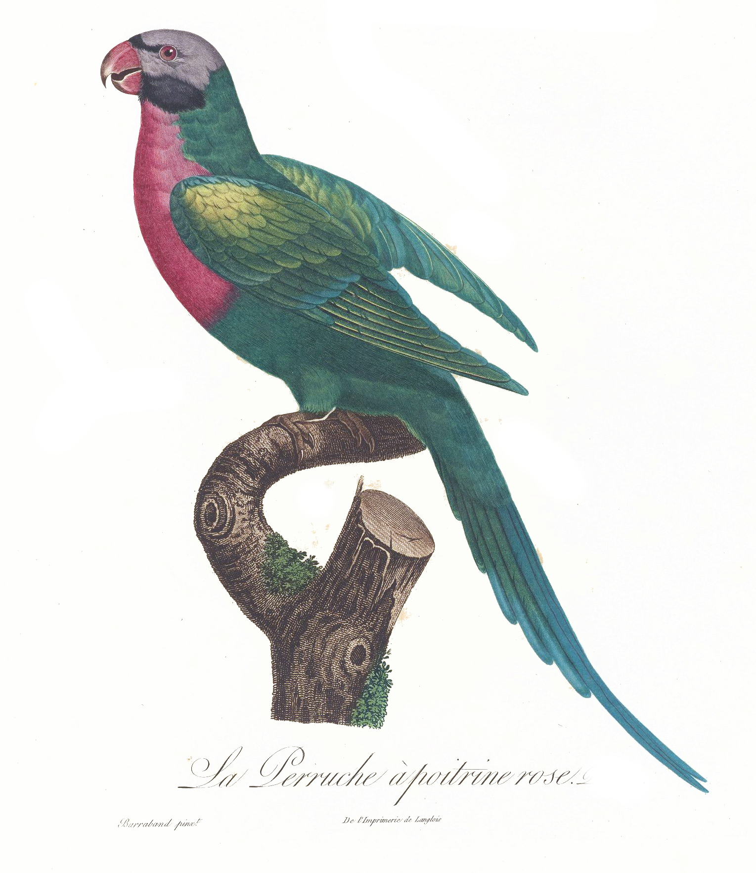 Red-breasted Parakeet (Psittacula alexandri). La Perruche apoitrine rose